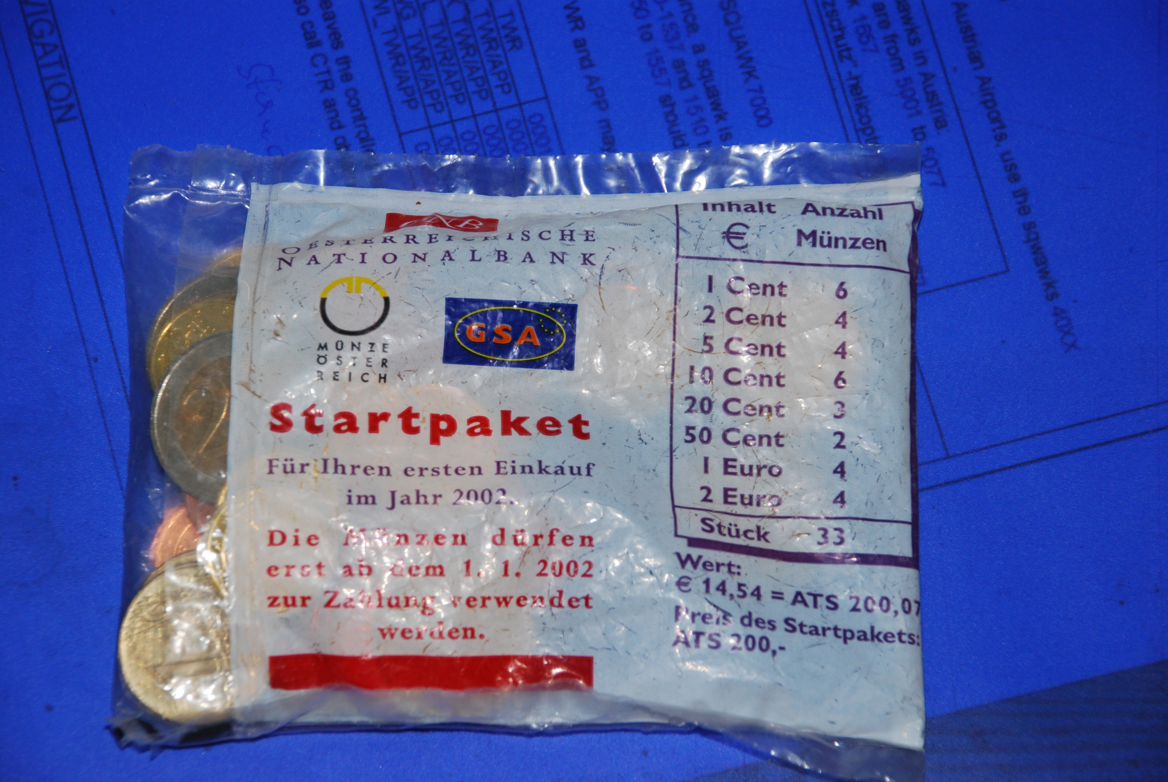 Euro Starterkit Republik Österreich